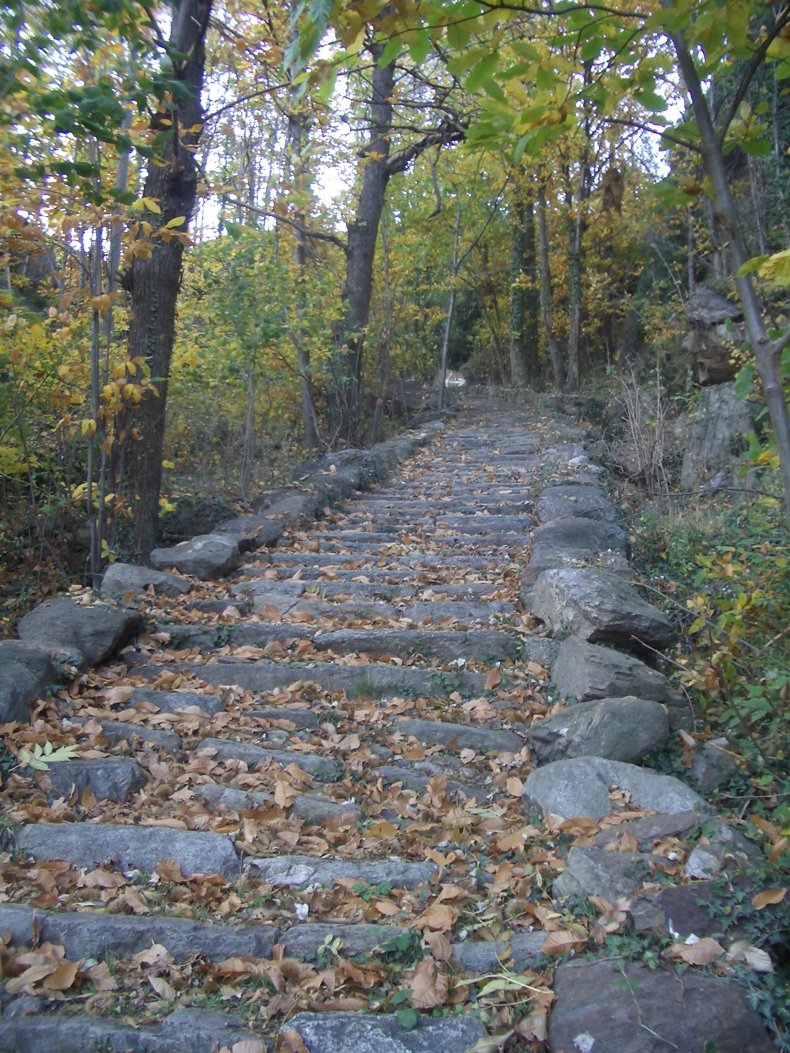 A Via Francigena path section near Settimo Vittone, Turin, Italy Category:Settimo Vittone is one of the European Cultural Routes walking paths system.